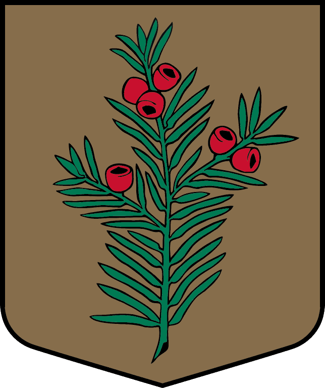 Granted 5 October 2017.